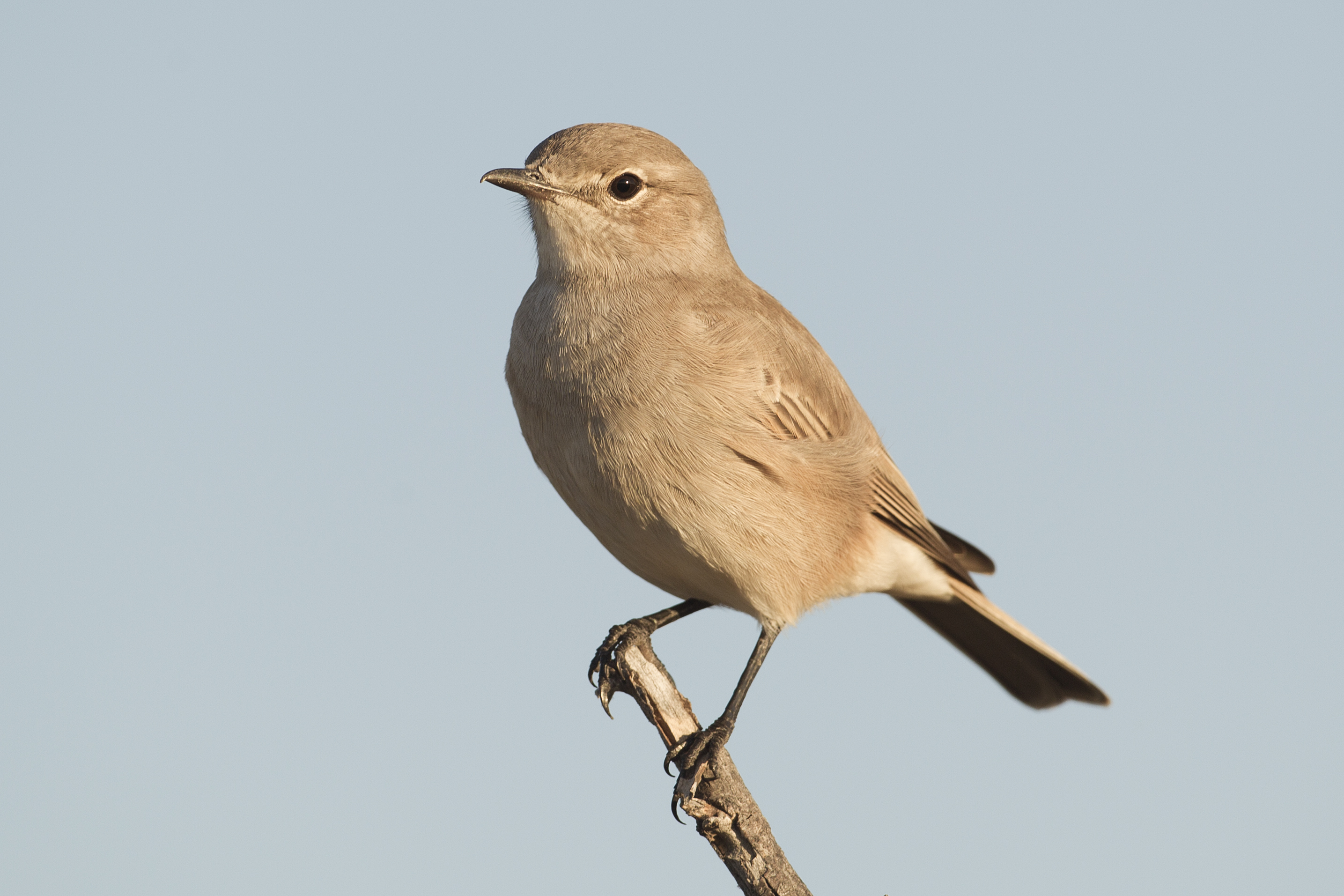 Chat flycatcher in Etosha National Park, Namibia